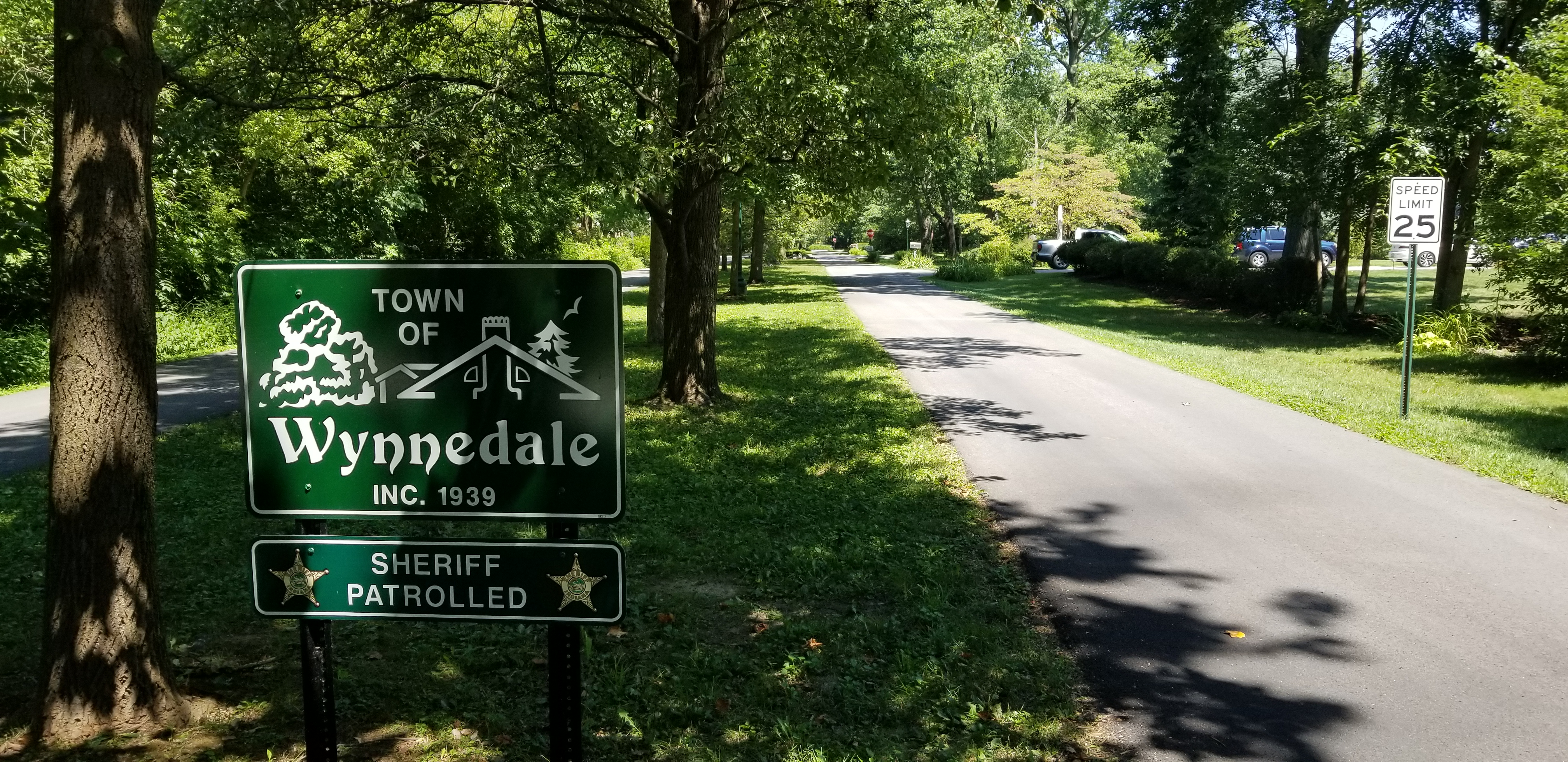 This is the welcome sign for Wynnedale, Indiana.